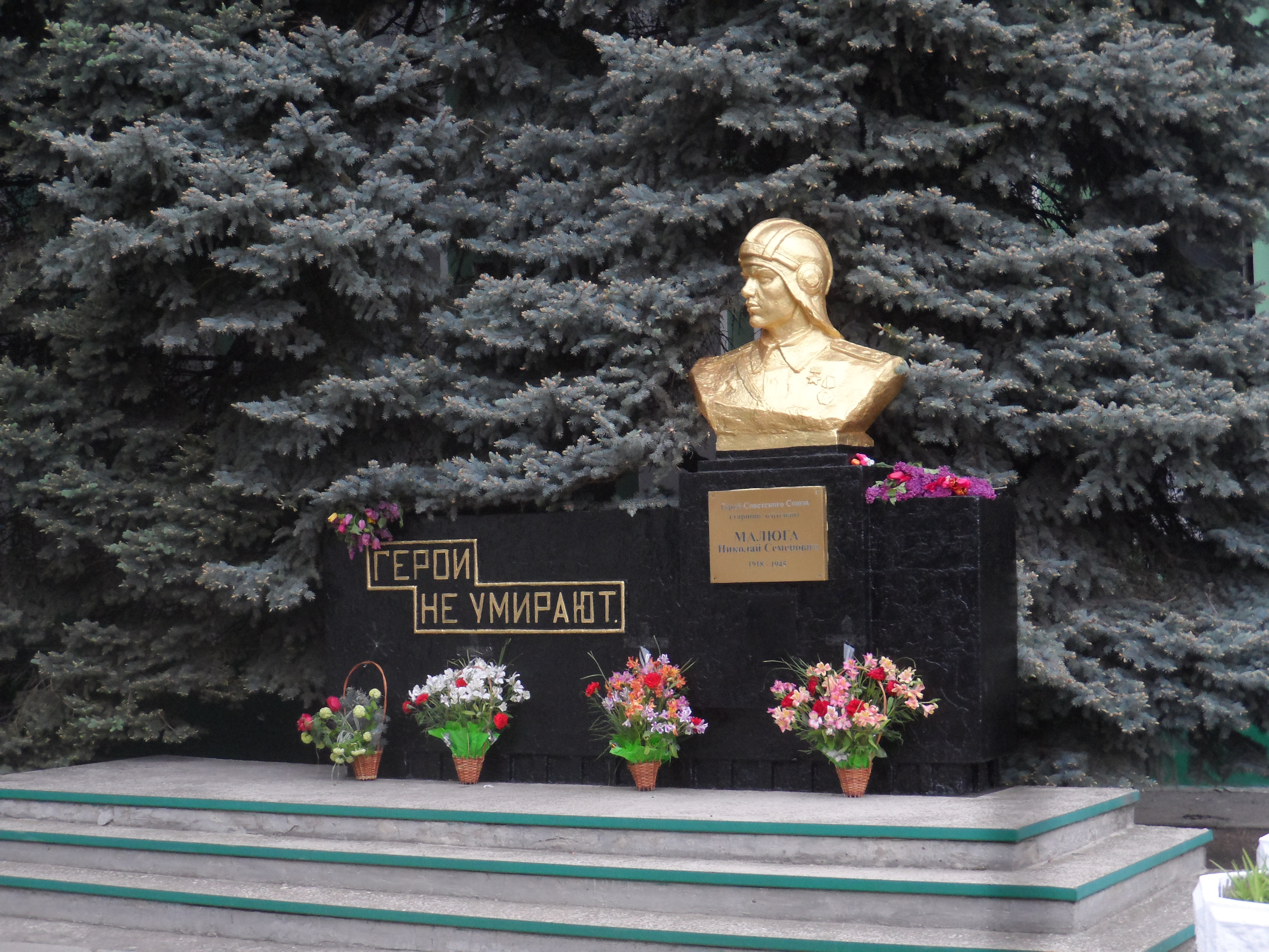 Nikolay Malyuga, Melitopol